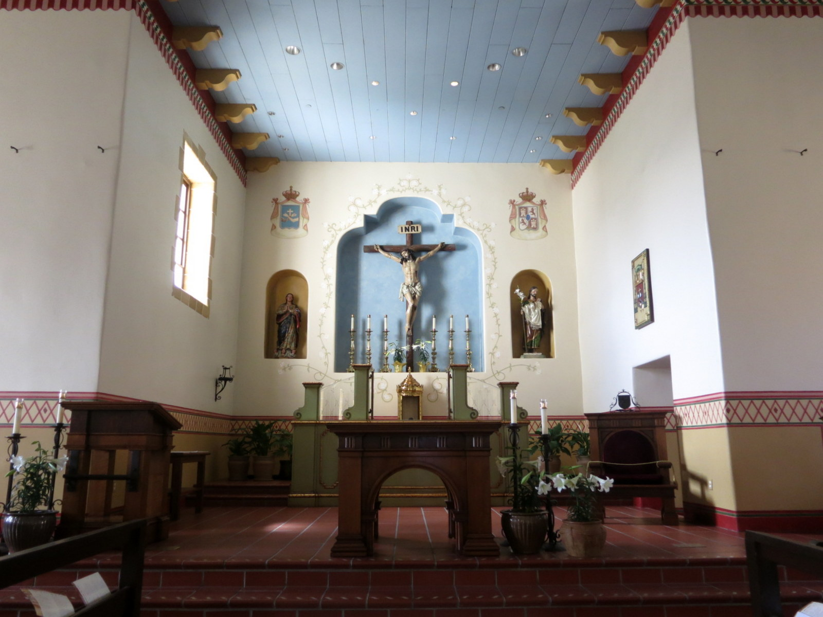 San Carlos Borromeo Cathedral (Monterey, CA) - interior, sanctuary on Holy Saturday 2013